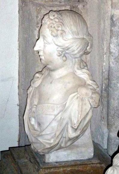 Bust of Princess Maria Euphrosyne of Sweden at her grave at Varnhem ChurchPlace: Axvall, Sweden